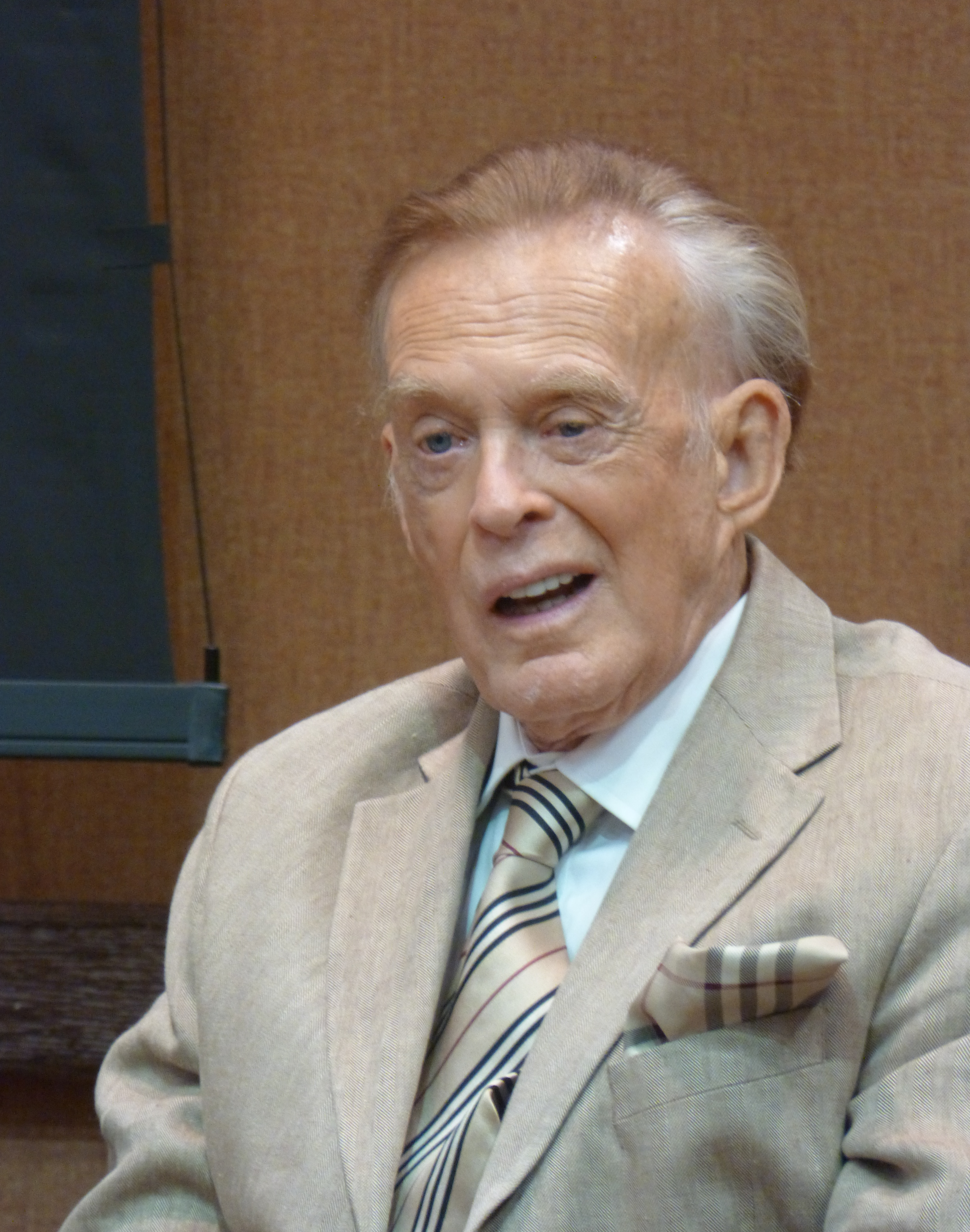 A photo of Frank Bresee